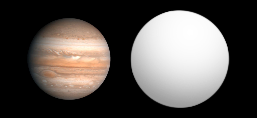 Comparison of best-fit size of the exoplanet CoRoT-4 b with the Solar System planet Jupiter, as reported in the Extrasolar Planets Encyclopaedia[1] as of 2010-10-03. ↑ Extrasolar Planets Encyclopaedia (2010-09-30). Retrieved on 2010-10-03.